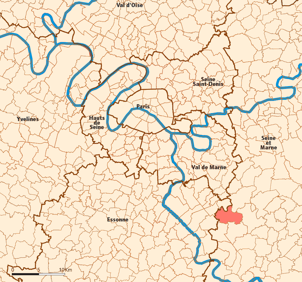 Created map myself